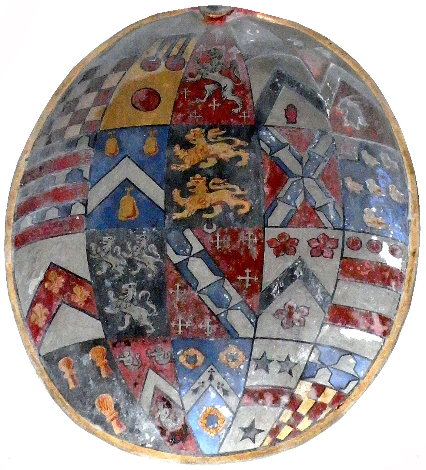 Heraldic cartouche on mural monument of Sir John III Chichester (1598-1669) of Hall, Bishop's Tawton, Devon. Bishop's Tawton Church. Shows 20 quarterings: 1: Chichester 2: Courtenay 3: Gules seme of crosses crosslet fitche, a lion rampant argent 4: Argent, a fess between two chevrons sable in base the Red Hand of Ulster 5: Gules, a chevron between three goat's heads erased ermine attired or (Marwood of Westcot, Marwood) 6: Beaumont of Youlstone, Shirwell 7: Azure, a chevron argent between three pears or (Orchard) 8: Sable, two lions passant crowned or (Dymoke) 9: Willington of Umberleigh 10: Azure, seven martlets or on a canton (sable?) a mullet (gules?) 11: Argent, on a chevron gules three fleurs-de-lis or 12: Sable, three lions rampant argent (Wotton of Widworthy) 13: Raleigh of Raleigh, Pilton, with crescent for difference (erroneous arms) 14: Argent, a chevron counter-ermine between three cinquefoils gules 15: Argent, two bars gules in chief three torteaux (Mules/Moels of Halmeston, Bishops Tawton) 16: Sable, three garbs or (if banded gules perhaps Stephen de Segrave, Chief Justiciar; possibly should be Peverell of Sampford Peverell as on Chichester monument in Pilton Church) 17: Gules, a chevron between three mermaids holding mirrors argent (Gough of Aldercombe in the parish of Kilkhampton, Cornwall; representing the marriage of James Chichester (d.1548) of Hall to Elizabeth Gough, a daughter and co-heiress of Richard Gough of Aldercombe in the parish of Kilkhampton, Cornwall (Vivian, Lt.Col. J.L., (Ed.) The Visitations of the County of Devon: Comprising the Heralds' Visitations of 1531, 1564 & 1620, Exeter, 1895, p.176) 18: Azure, a chevron ermine between three chaplets or (Clotworthy) 19: Argent, a fess gules between three mullets sable 20: Chichester